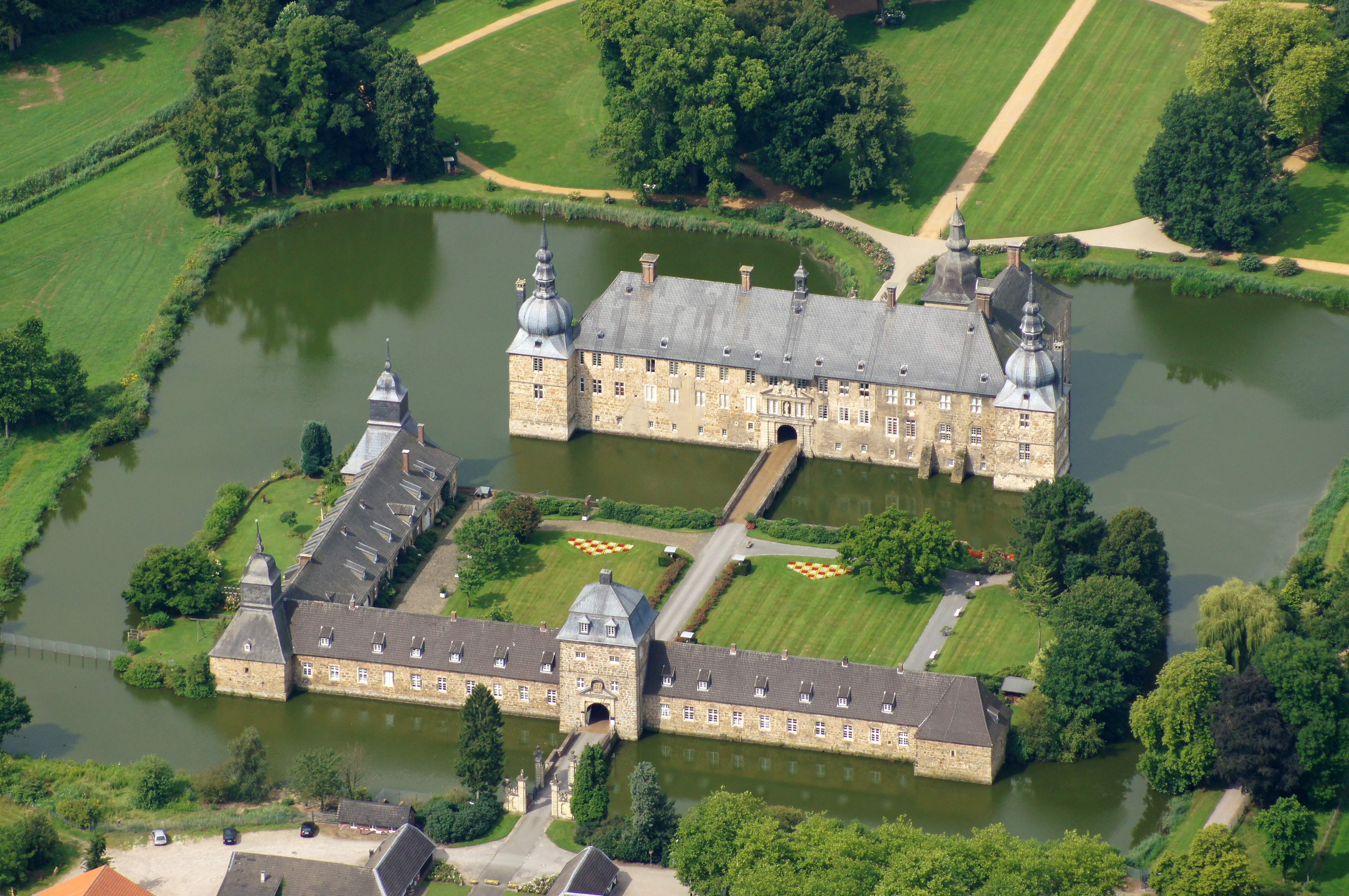 The castle of Lembeck is situated in Lembeck, Dorsten, district of Recklinghausen in North Rhine-Westphalia, Germany.